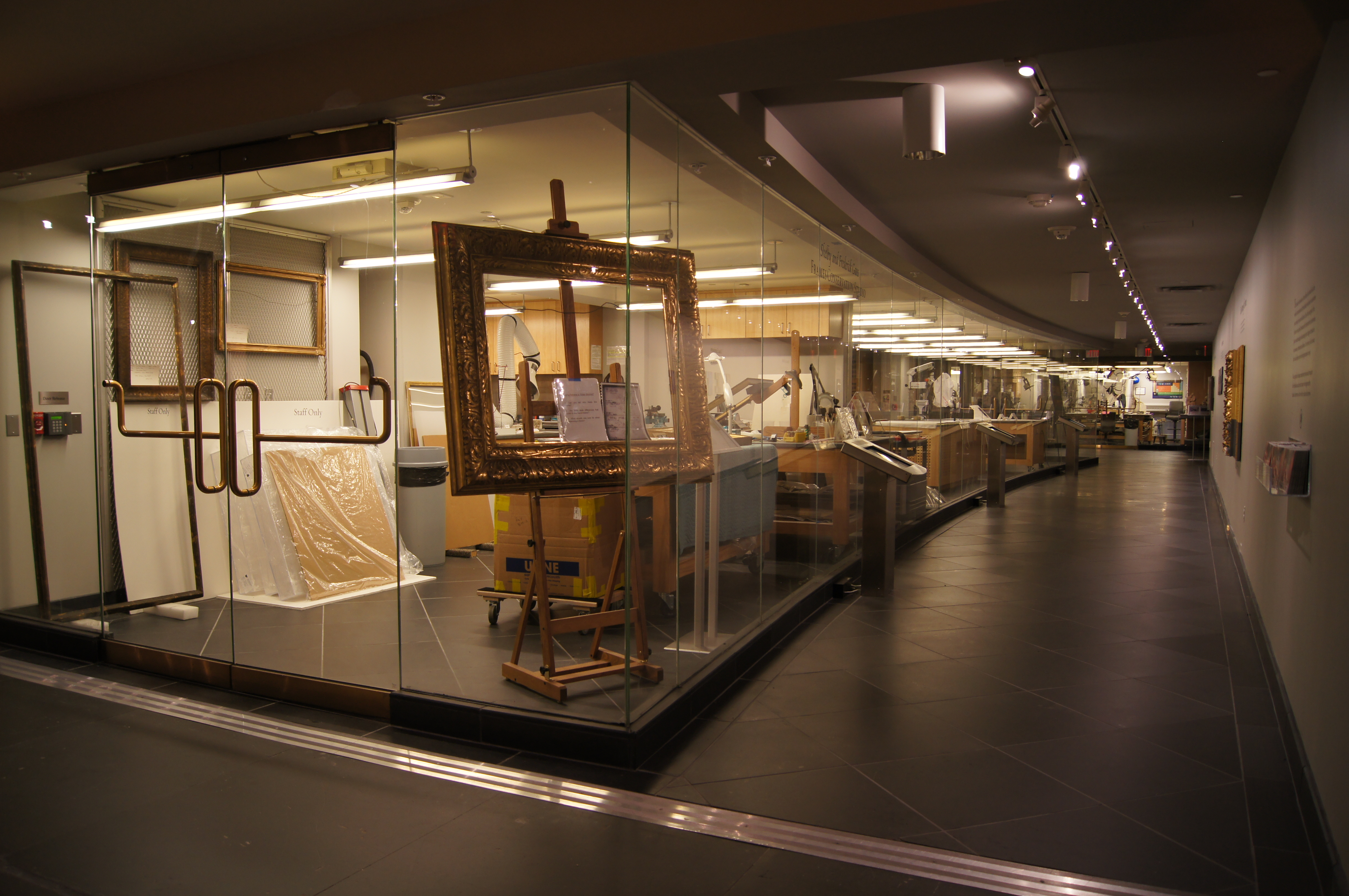 Smithsonian American Art Museum in Washington, D.C., USA